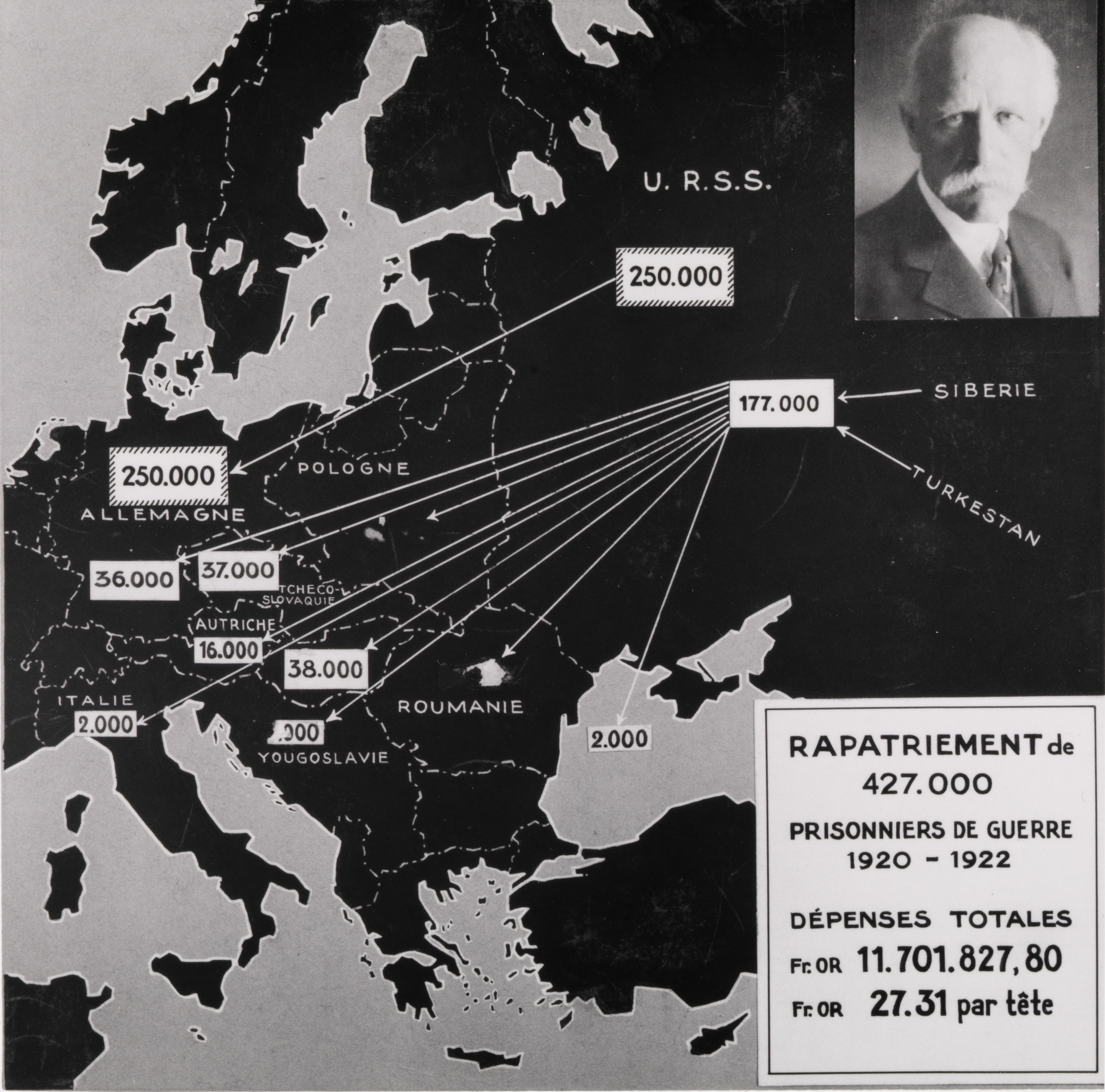 Map of Europe showing the number of prisoners of war returned from Russia during the period 1920-1922. The return of 427,000 prisoners of war cost 11,701,827.80 gold francs.